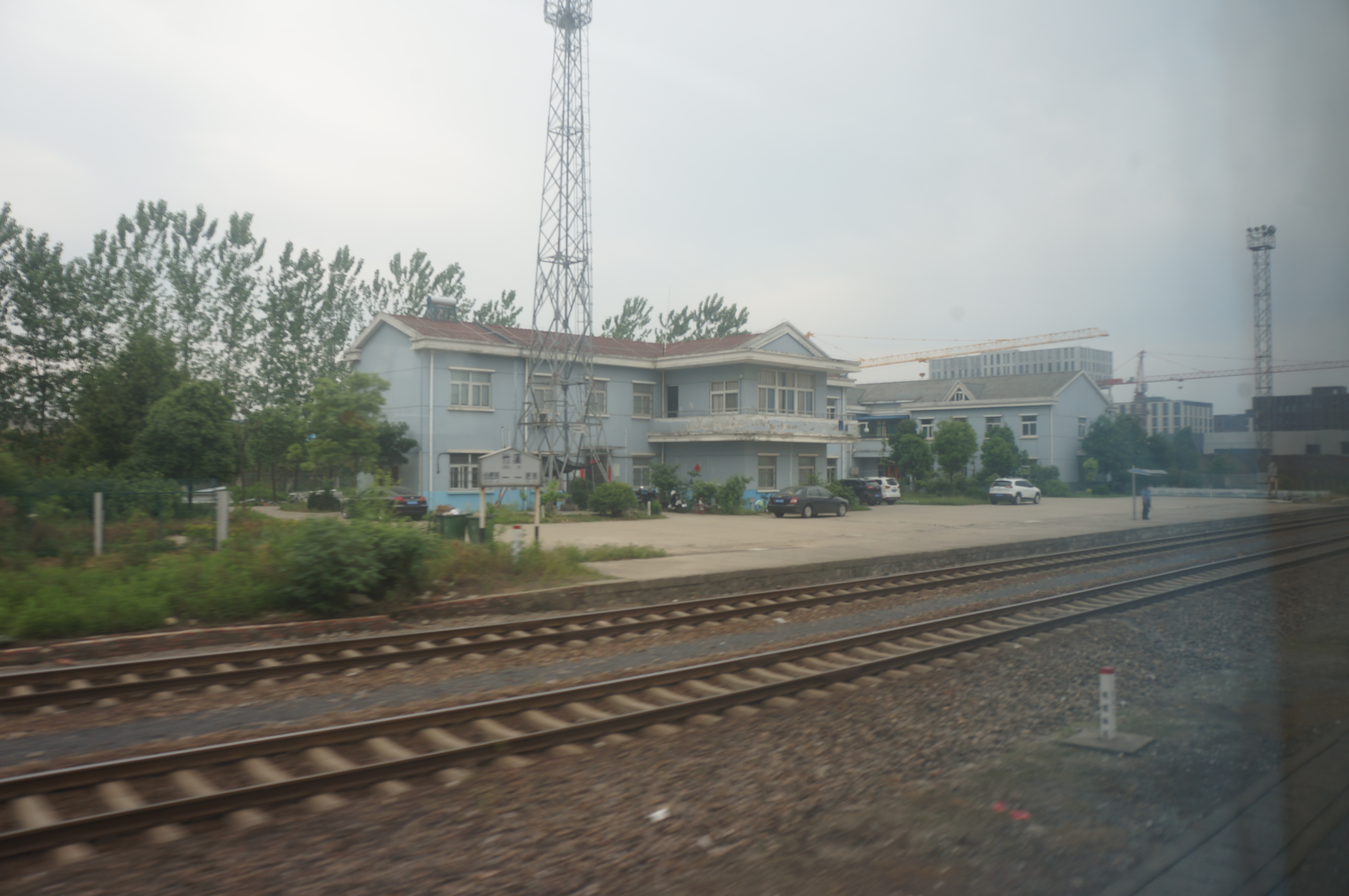 201705 Zhuxi Railway Station